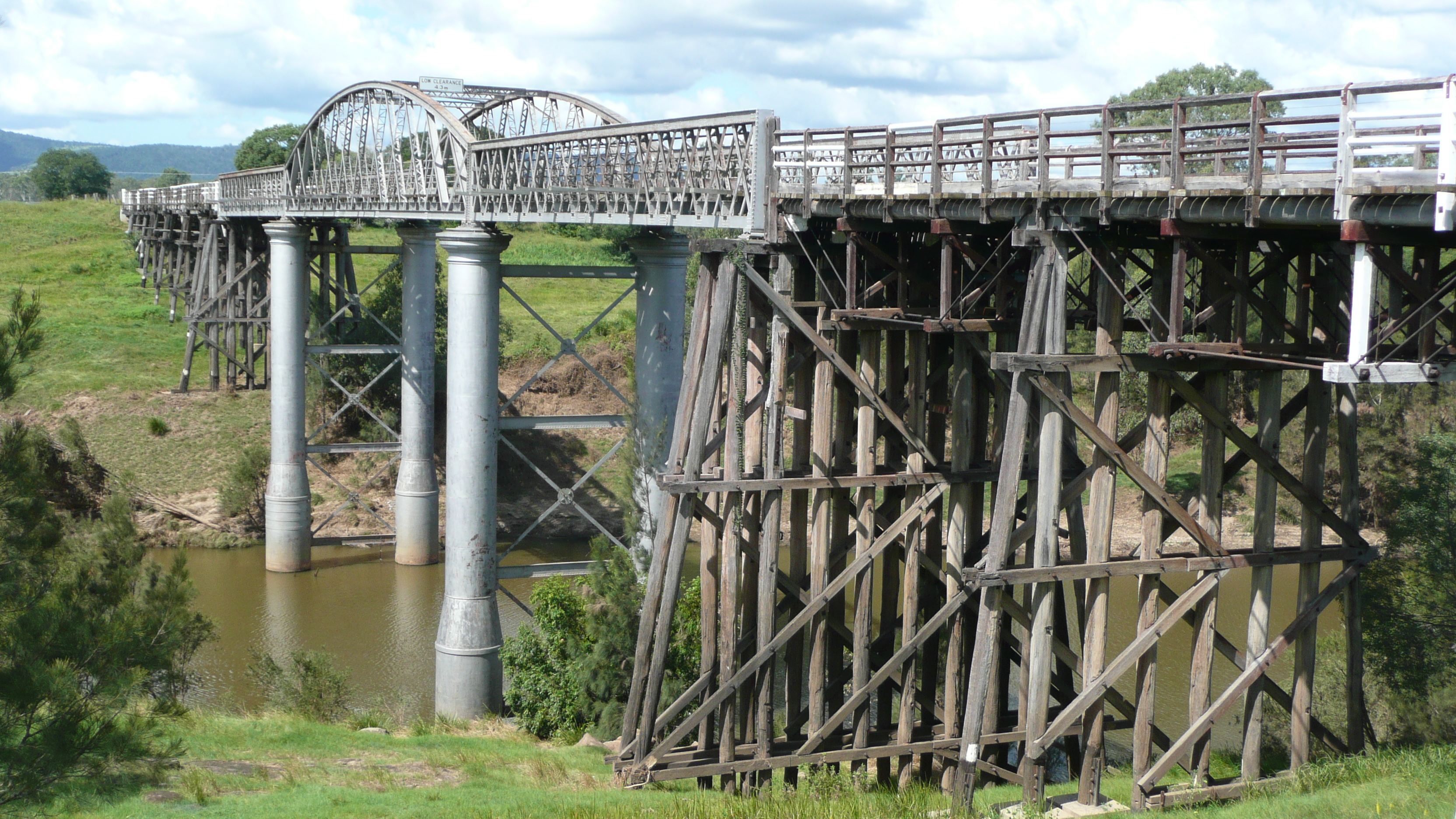 View of Dickabram Bridge over Mary River